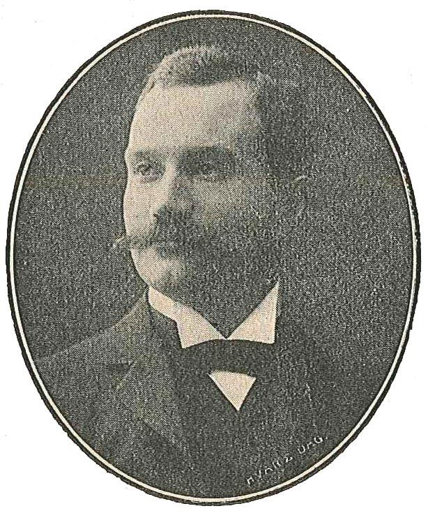 Johan Gunnar Andersson (1874-1960), Swedish geologist, archaeologist and paleontologist.